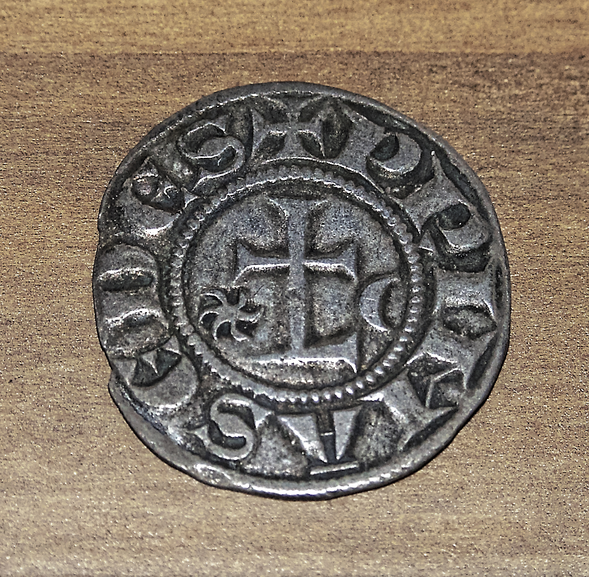 Fort lyonnais, monnaie anonyme frappée pour le compte de l'église de Lyon, archevêque et chapitre de chanoines entre le 11 et le 14e siècle. Conservé au médailler du Musée des beaux-arts de Lyon ; salle publique.